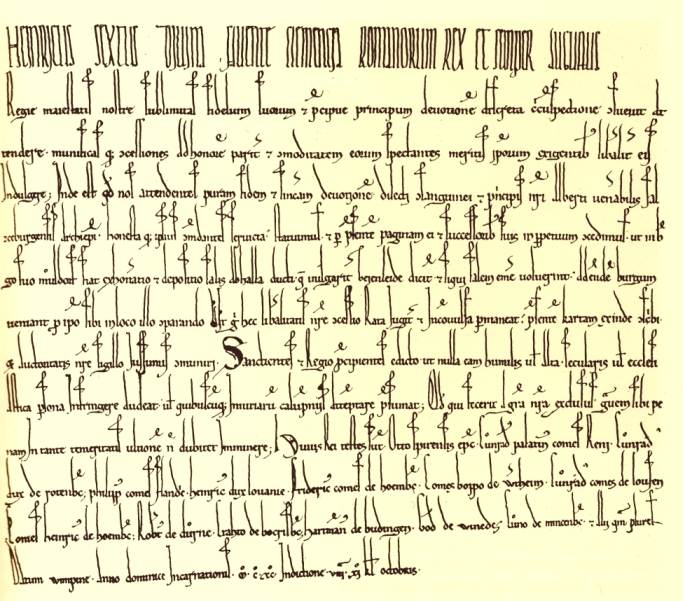 Deed of the construction of a salt store in Mühldorf am Inn from 1190.